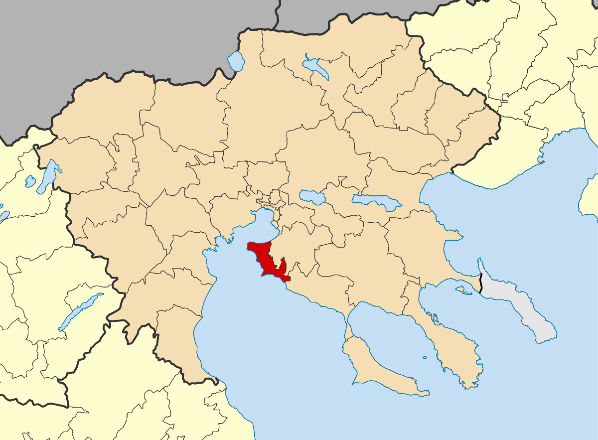 Locator map for Thermaikos municipality in Greek region Central Macedonia (2011)